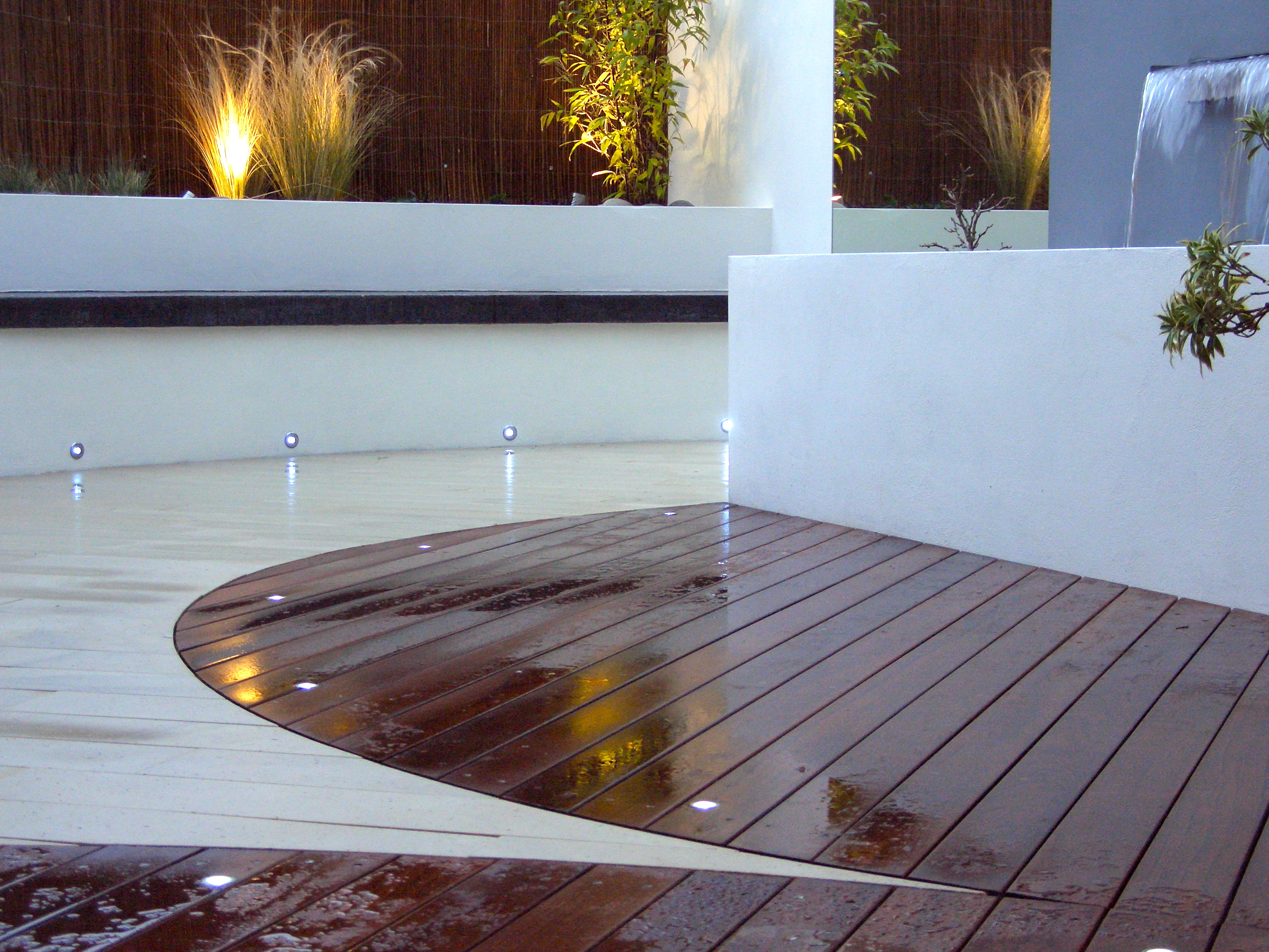 Contemporary garden in Colchester, UK. For more see here